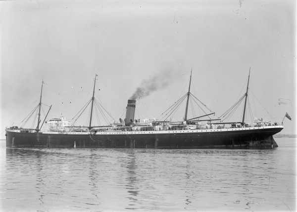 White Star Liner Runic (II), used as troopship during WWI. Converted to whaling factory New Sevilla in 1930